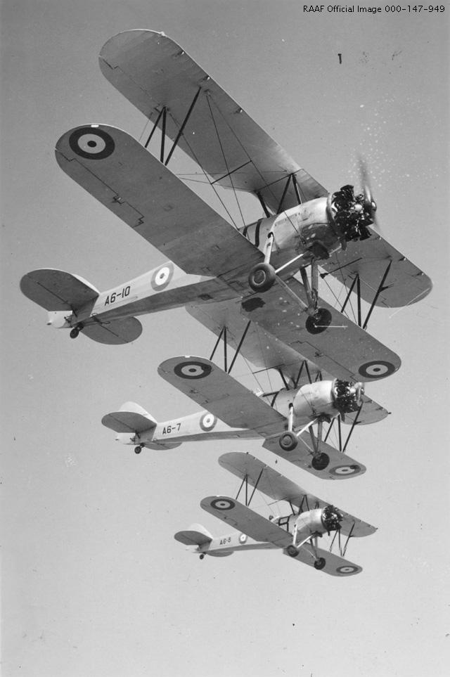 Formation flight of Avro Cadet.